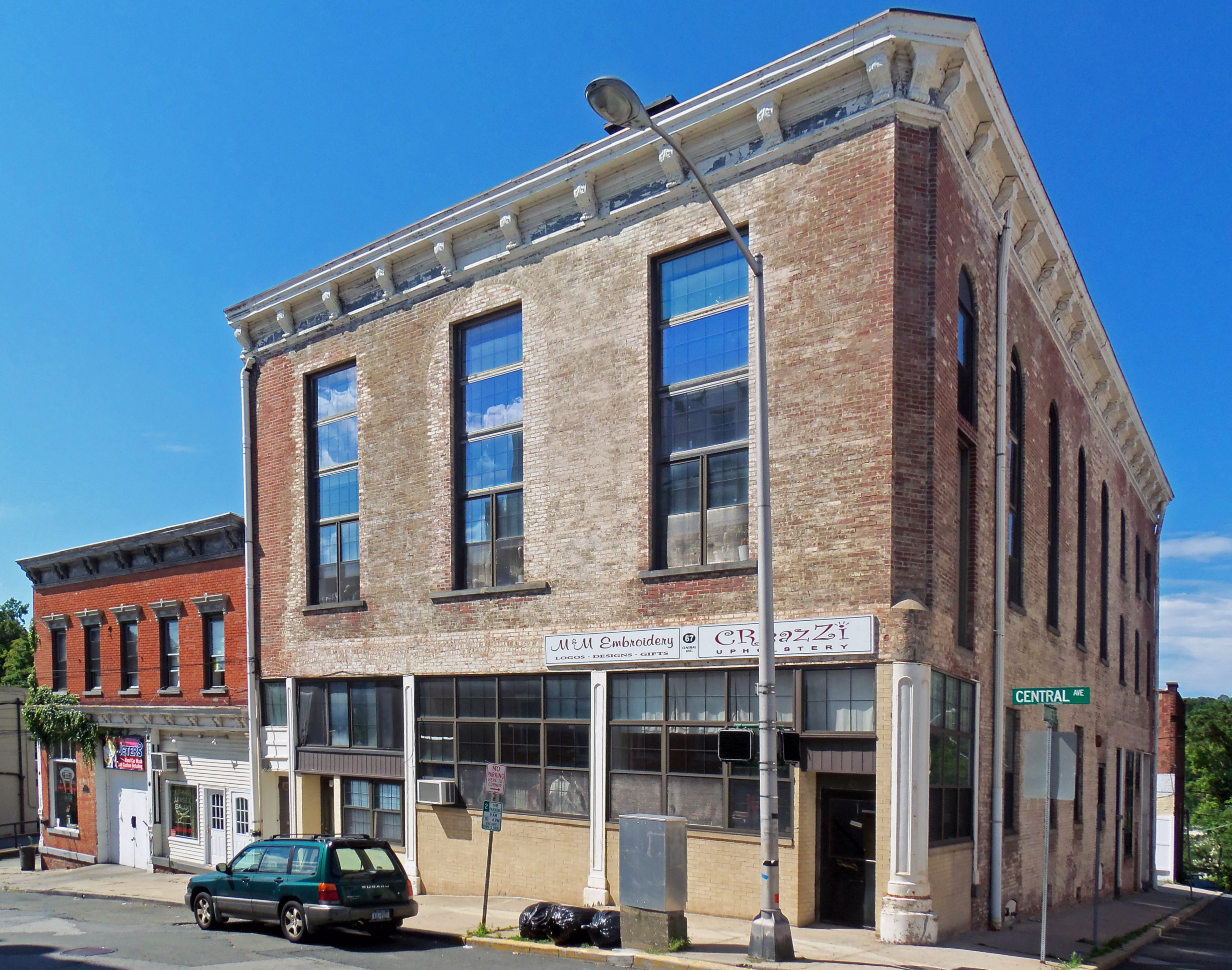 Former Olive Opera House, a contributing property to the downtown historic district, Ossining, NY, USA